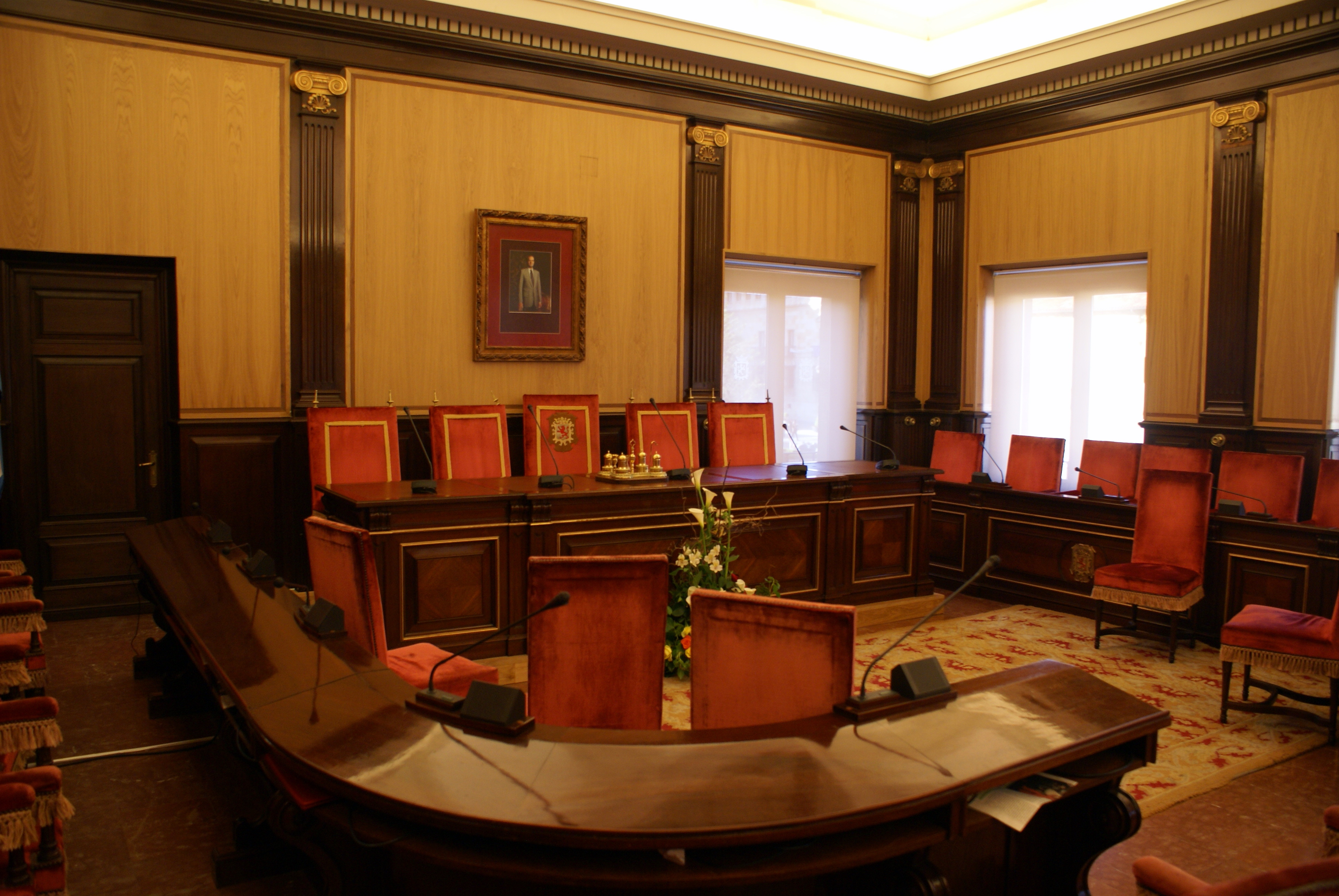 Plenary hall of the city hall of León, Spain. (San Marcelo)